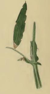 Stainton’s Natural History of the Tineina (1855–1873): Athrips tetrapunctella a sprig of Lathyrus palustris with a larval web